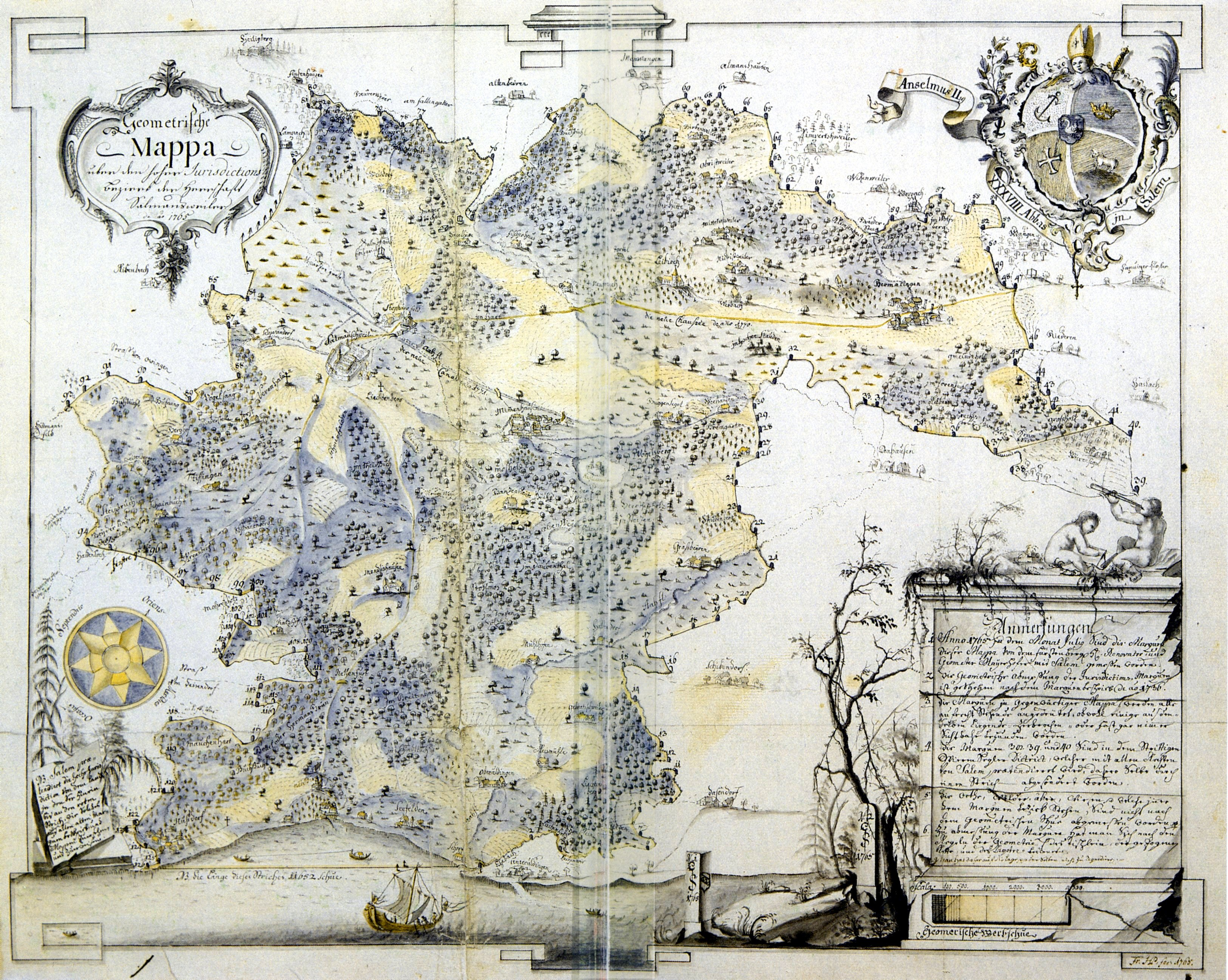 Map from 1765 showing the territory over which the Imperial Abbey of Salem exercised high jurisdiction. Border stones numbered from 1 to 129 indicate the limits of the abbey. Salem was bordered on the south by Lake Constance, on the east by the Prince-Bishopric of Constance, on the north by the county of Heiligenberg (part of the scattered domains of the Fürstenberg princes) and on the west by the Imperial City of Überlingen. The elaborate coat of arms of Abbot Anselm II is shown in the upper right corner.